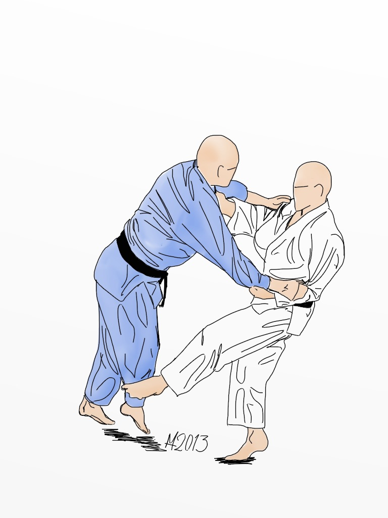 Illustration of the judo throw harai-tsurikomi-ashi, the sending away foot sweep.